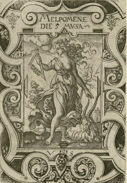 Muse Melpomene. Engraving by Virgil Solis frm P. Ovidii Metamorphosis, 1562.